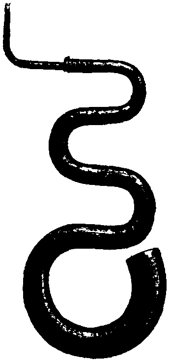 Drawing of the serpent, a musical instrument.